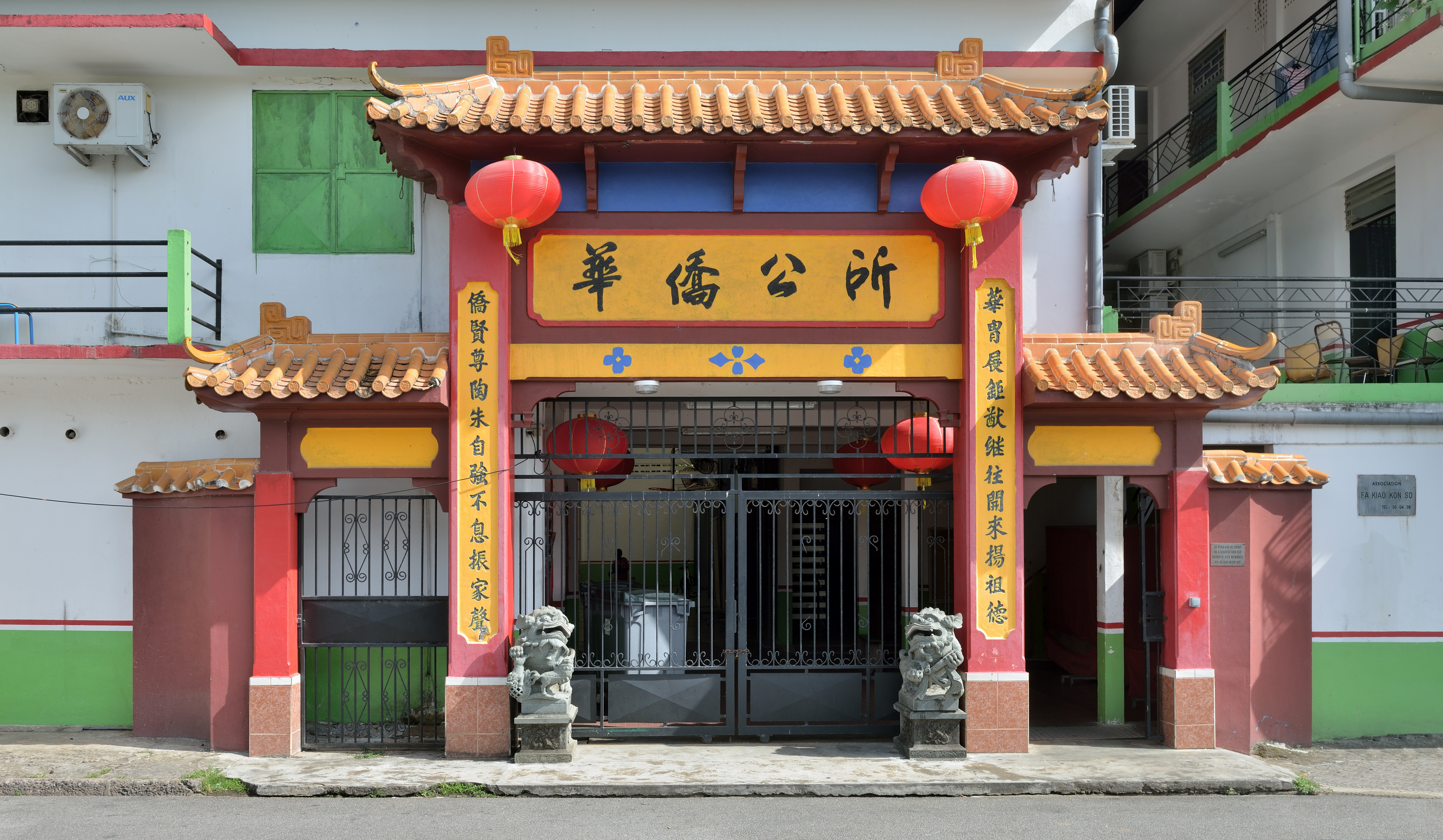 House of the Fa Kiao Kon So association of Chinese expatriots in Cayenne, place des amandiers, French Guiana.